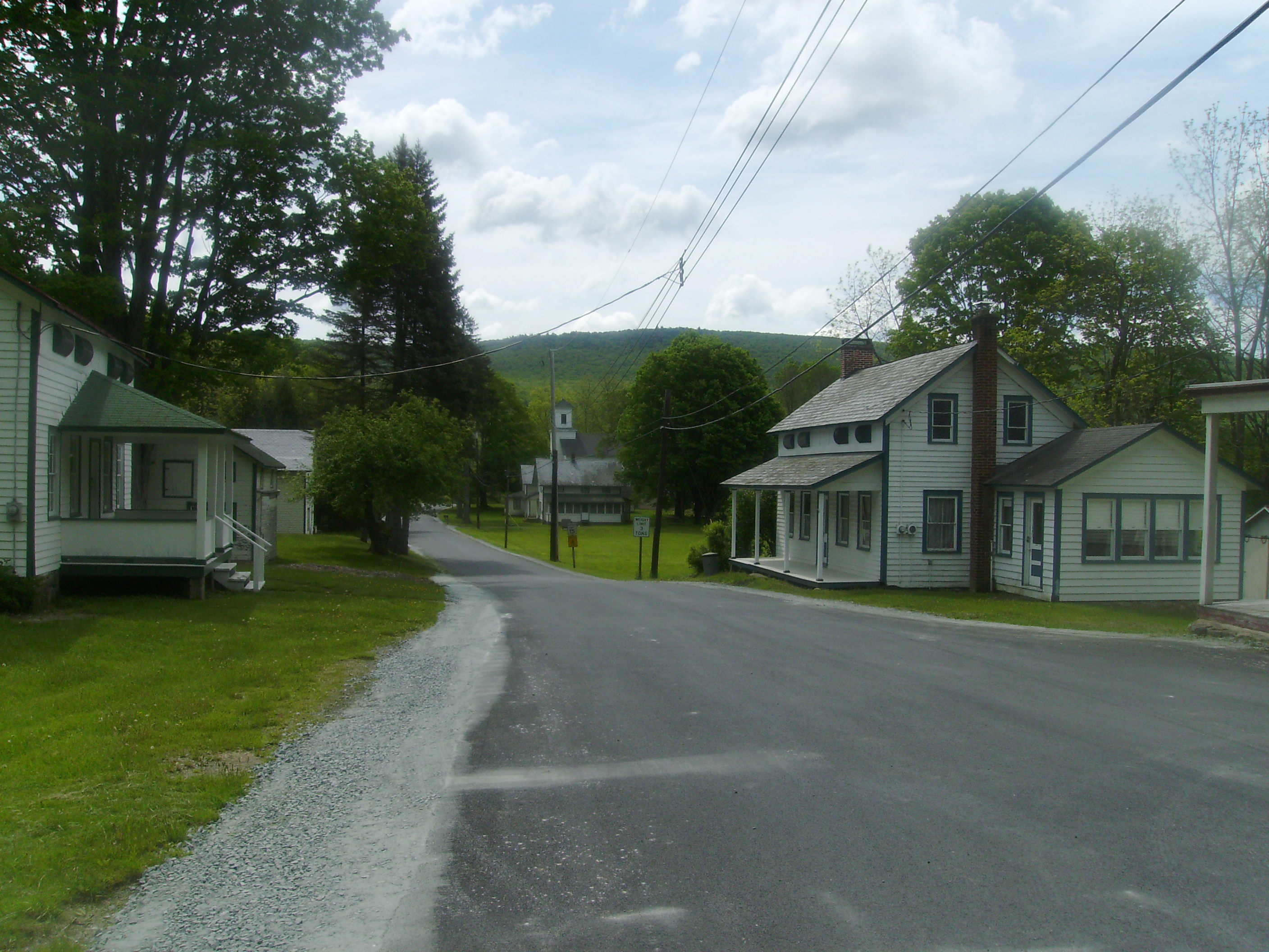 View of the isolated Walpack Center, New Jersey from National Park Service Road 615